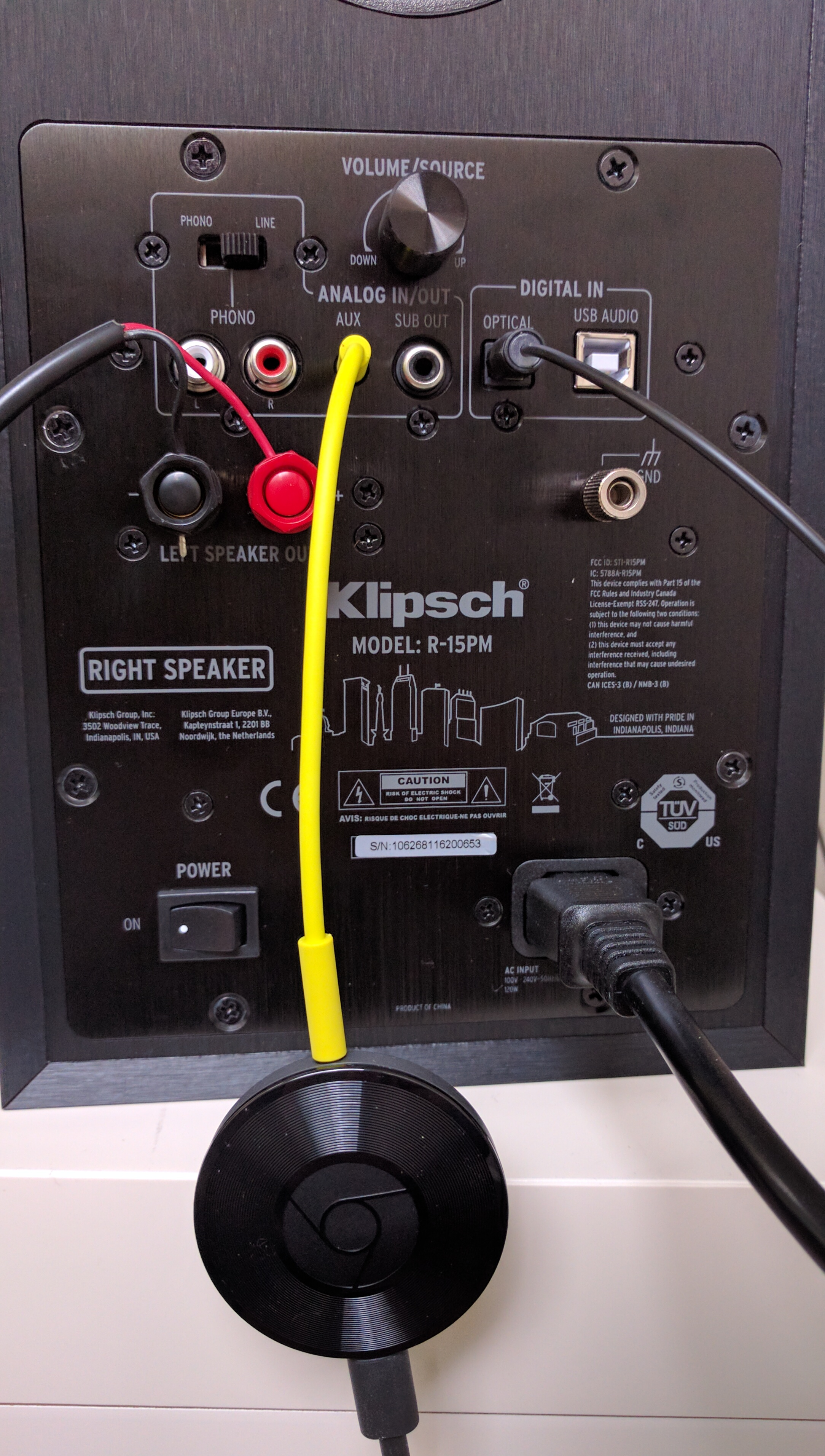 A Chromecast Audio device connected to the auxiliary (AUX) port of a powered speaker.